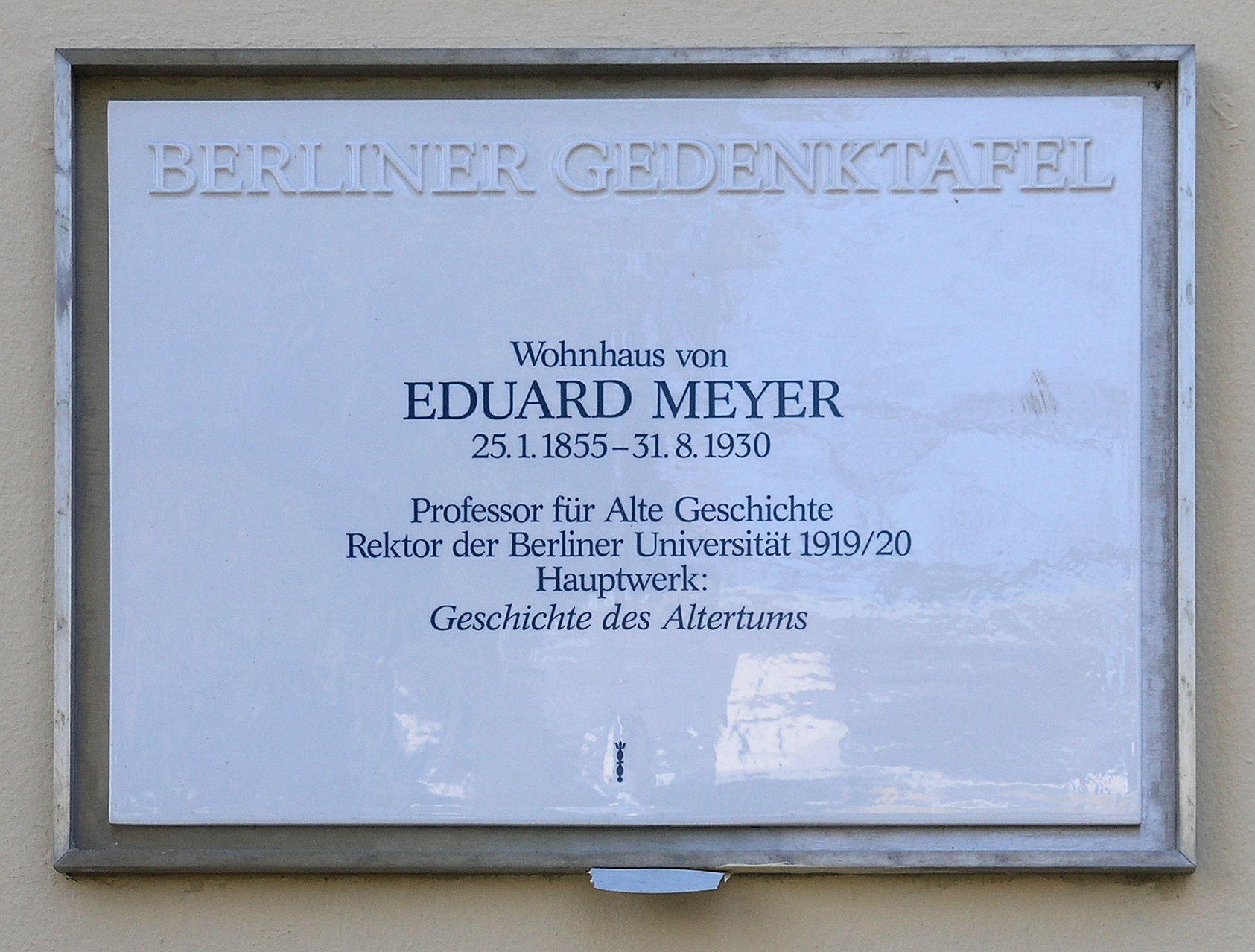 Berlin memorial plaque, Eduard Meyer, Mommsenstraße 7, Berlin-Lichterfelde, Germany Koordinate:52°26′33″N 13°18′3″E / 52.4425°N 13.30083°E